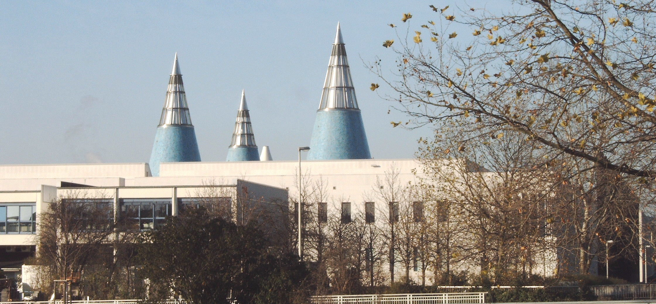 Art and exhibition hall of the Federal Republic of Germany (Federal Art Gallery) in Bonn.